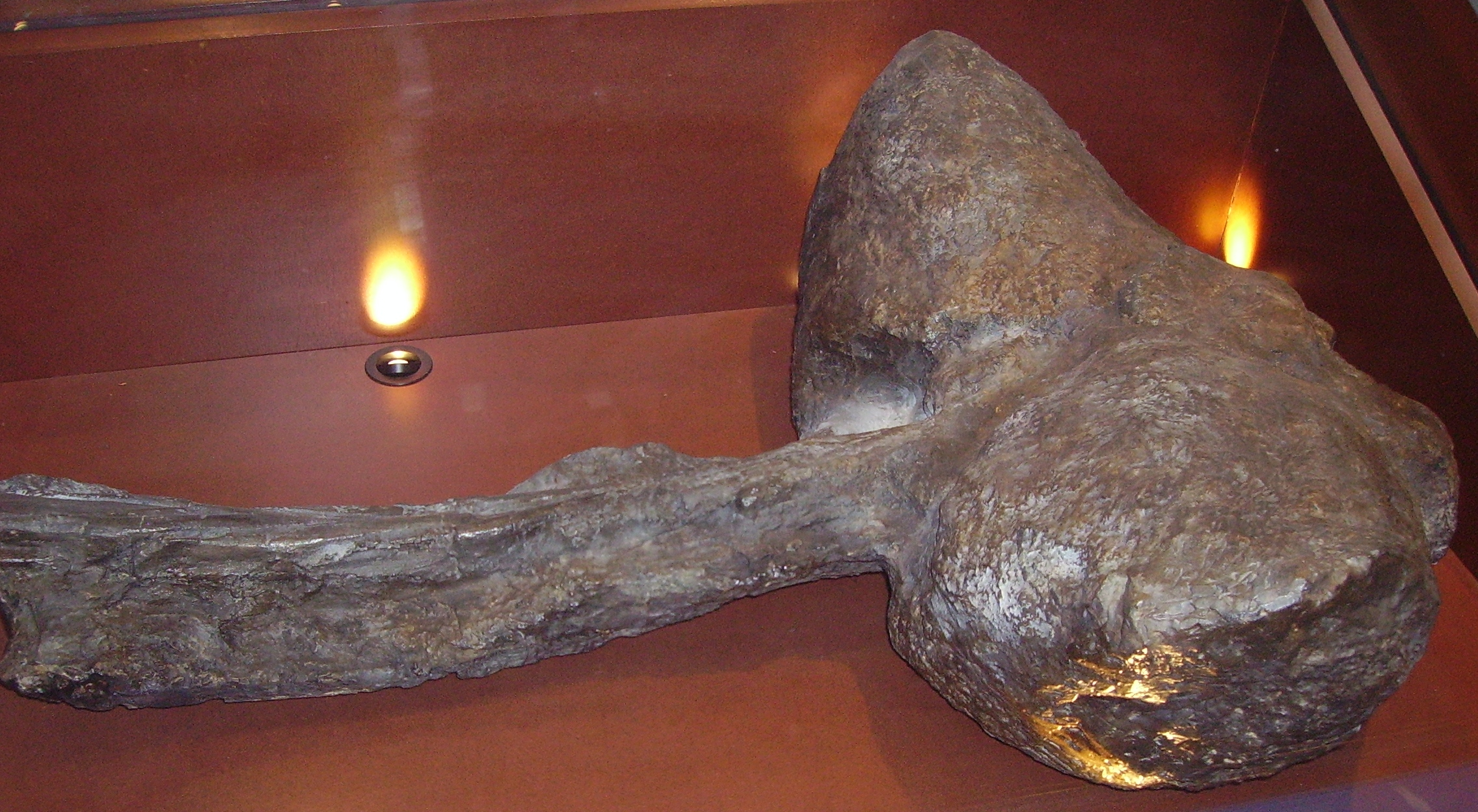 Anodontosaurus (formerly Euoplocephalus) tail club cast (AMNH 5245) - Natural History Museum.